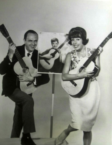 Publicity photo of Bob Newhart, Caterina Valente and Carol Burnett from the television program The Entertainers.